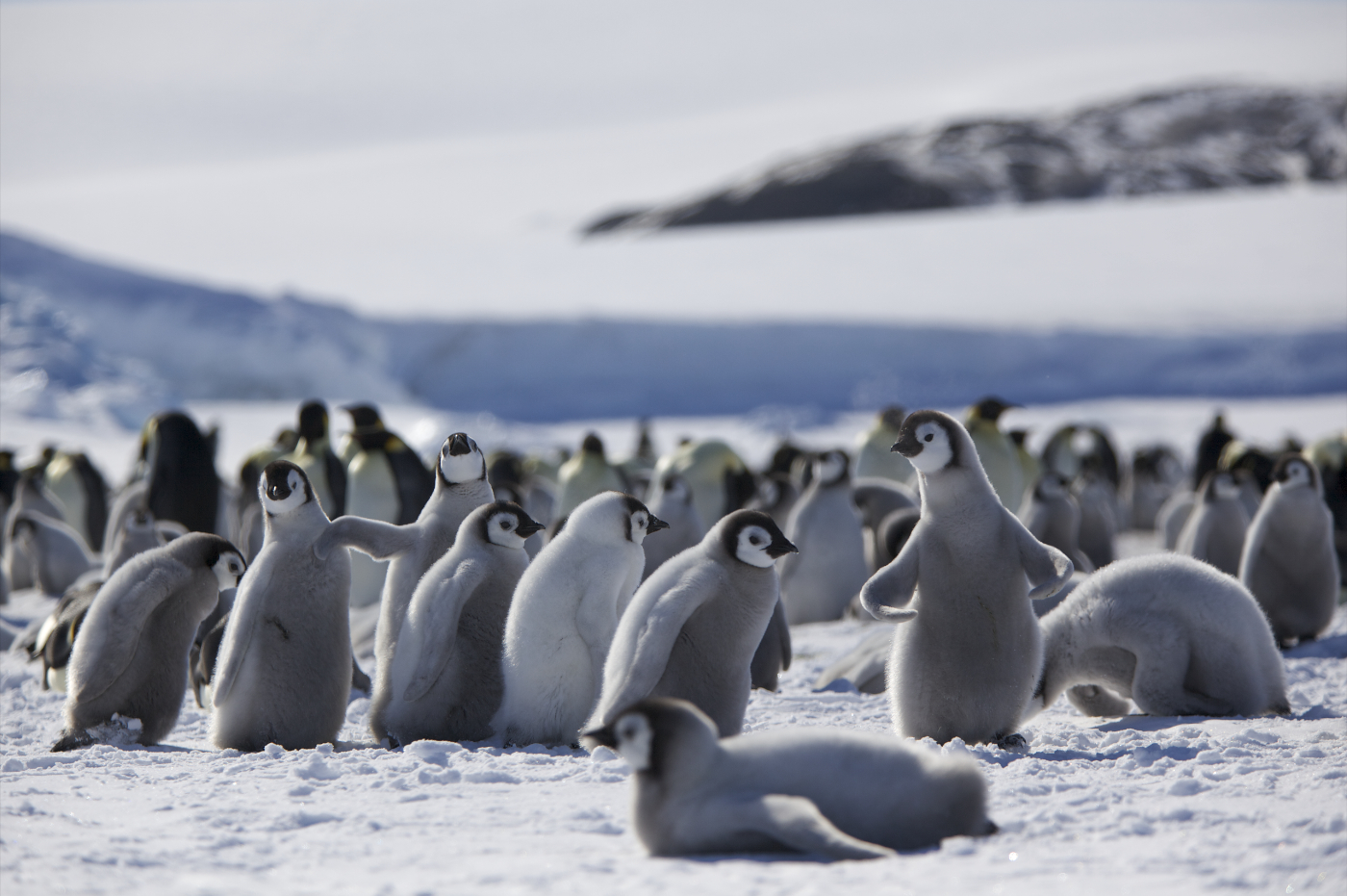 A juvenile Emperor Penguin in Snow Hill Island, Antarctica.